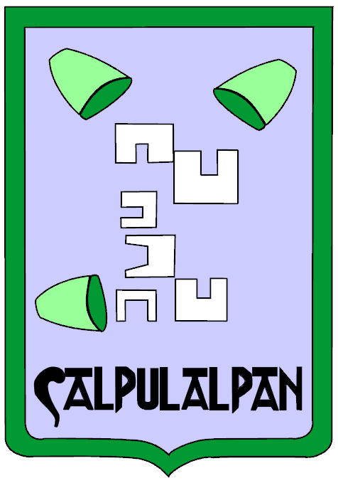 Coat of Arms of the Municipality of Capulalpan, Mexico